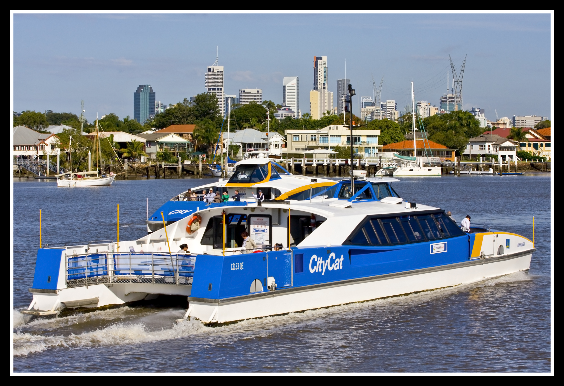 CityCats on Brisbane River